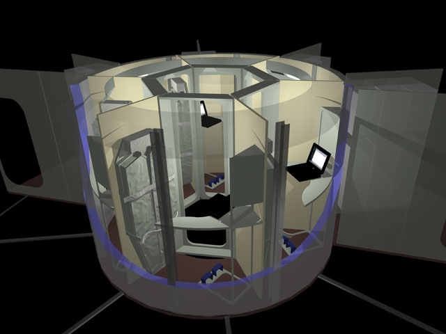 S99-05360 - Computer Generated Still - Closeup of Transhab Module crew quarters. Transhab to be installed on the International Space Station.